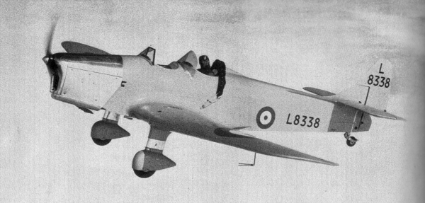 Miles Magister elementary trainer.